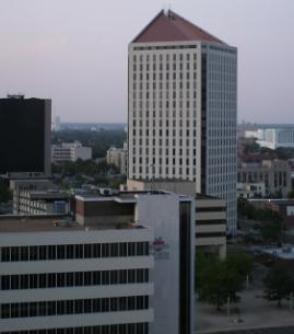 Epic Center, taken from Delano District.